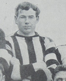 Photograph of Duncan McIvor in 1909.